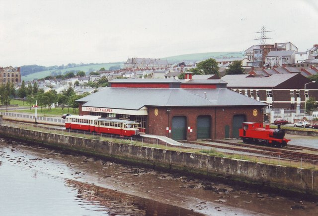 Foyle Valley Railway station and sheds, Derry, Co. Londonderry